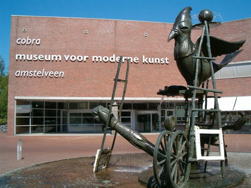 This picture shows the dutch 'Cobra museum voor moderne kunst' in Amstelveen.